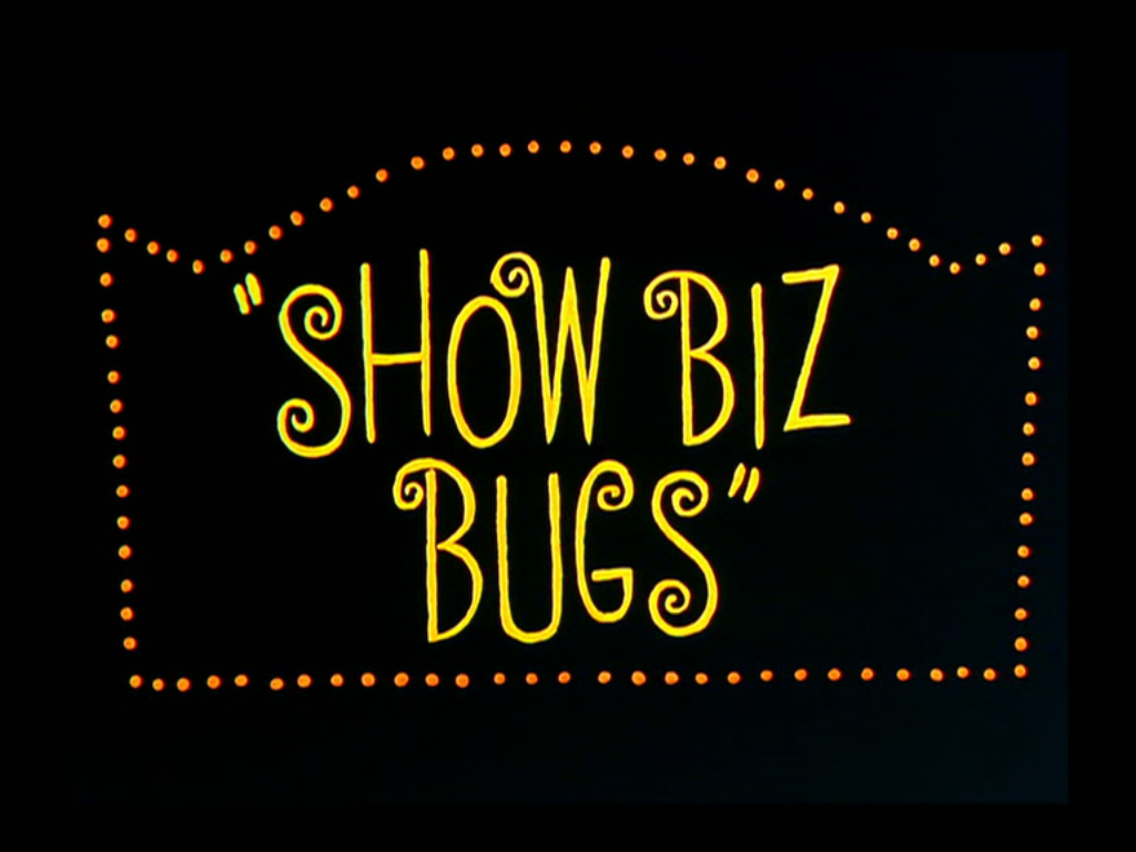 Title card of the Bugs Bunny/Daffy Duck short film "Show Biz Bugs."